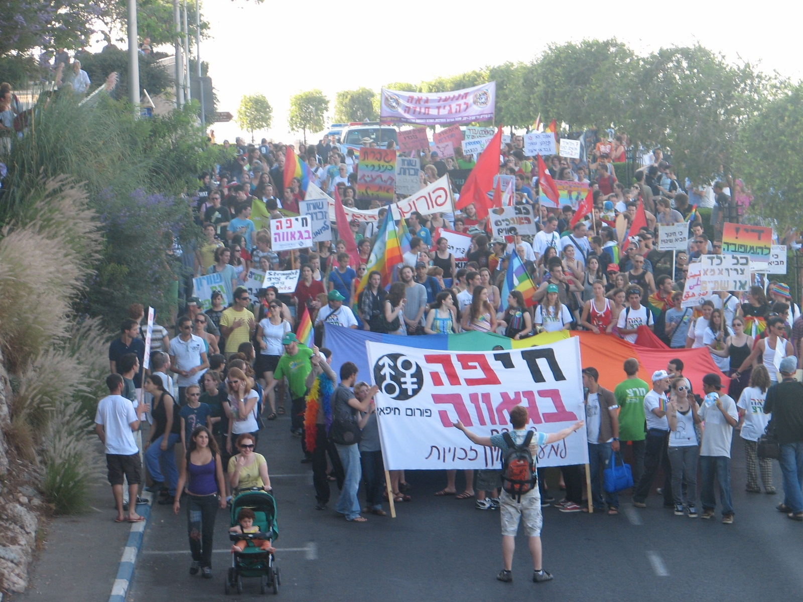 Participants of the Haifa annual gay pride parading along Yefé Nof (Panorama) Street, borough of Carmel.